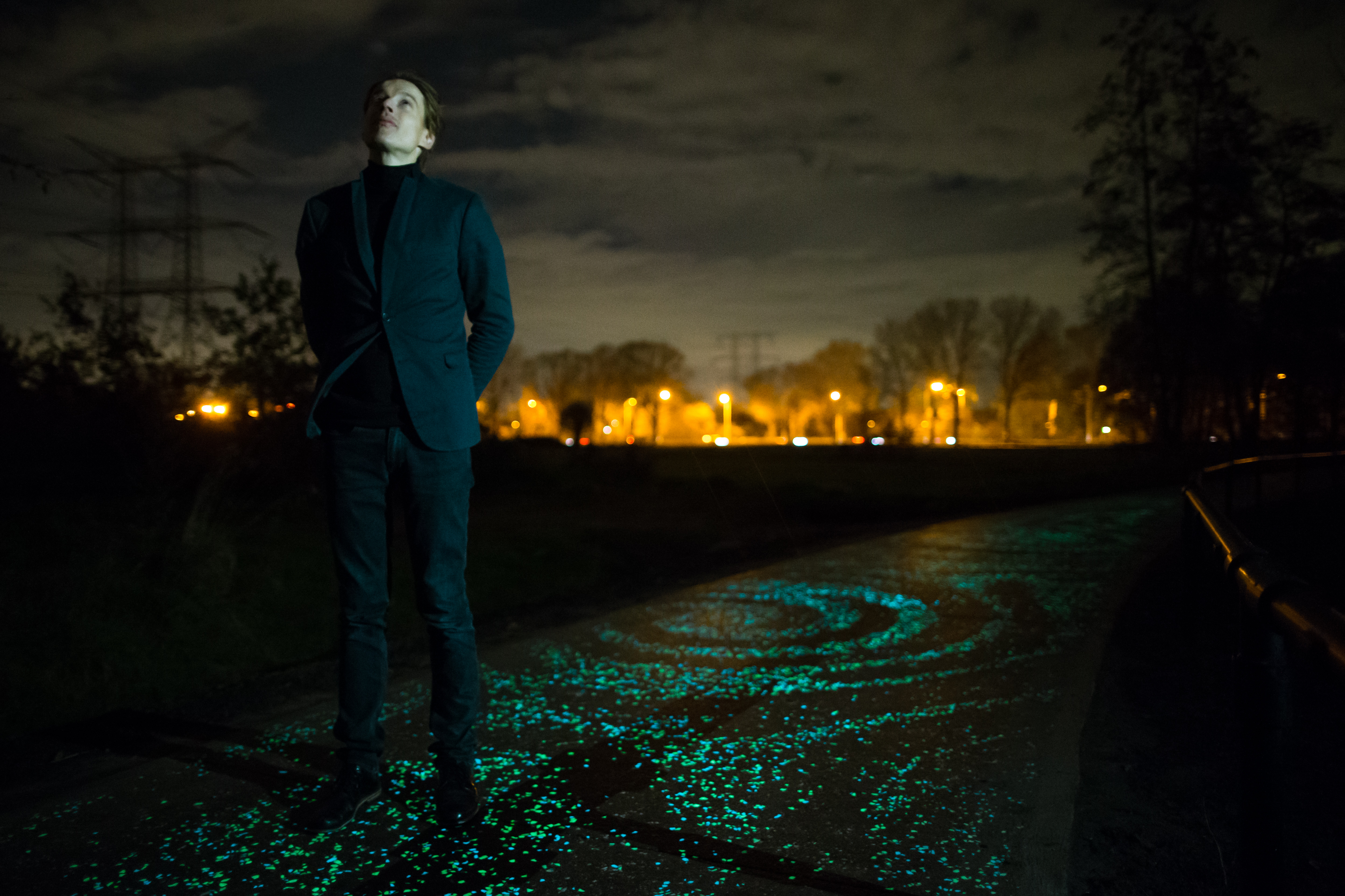 picture wikilink